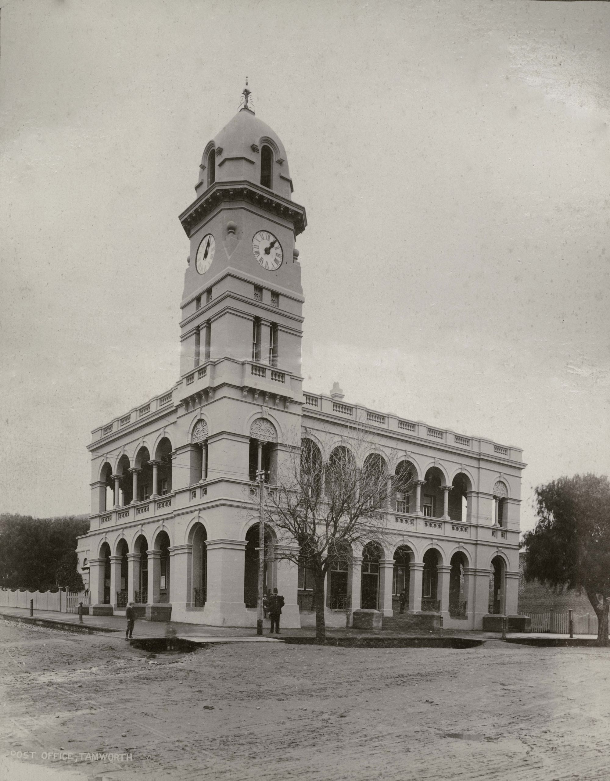 Tamworth Post Office Dated: c.1890's Digital ID: 4346_a020_a020000050 Rights: We'd love to hear from you if you use our photos. This image is part of our "Moments in Time" blog series where we ask you to help us date the photos or identify the location where the photo was taken. If you can help with this image please head over to the post at our Archives Outside blog. We have included the larger version here on Flickr to help show more detail. Many other photos in our collection are available to view and browse on our website using Photo Investigator.